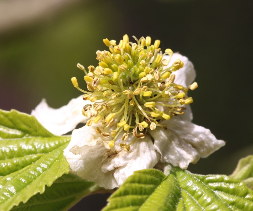 Detail of flower of Parrotiopsis jacquemontiana, Dendrological Garden Pruhonice, Czech Republic